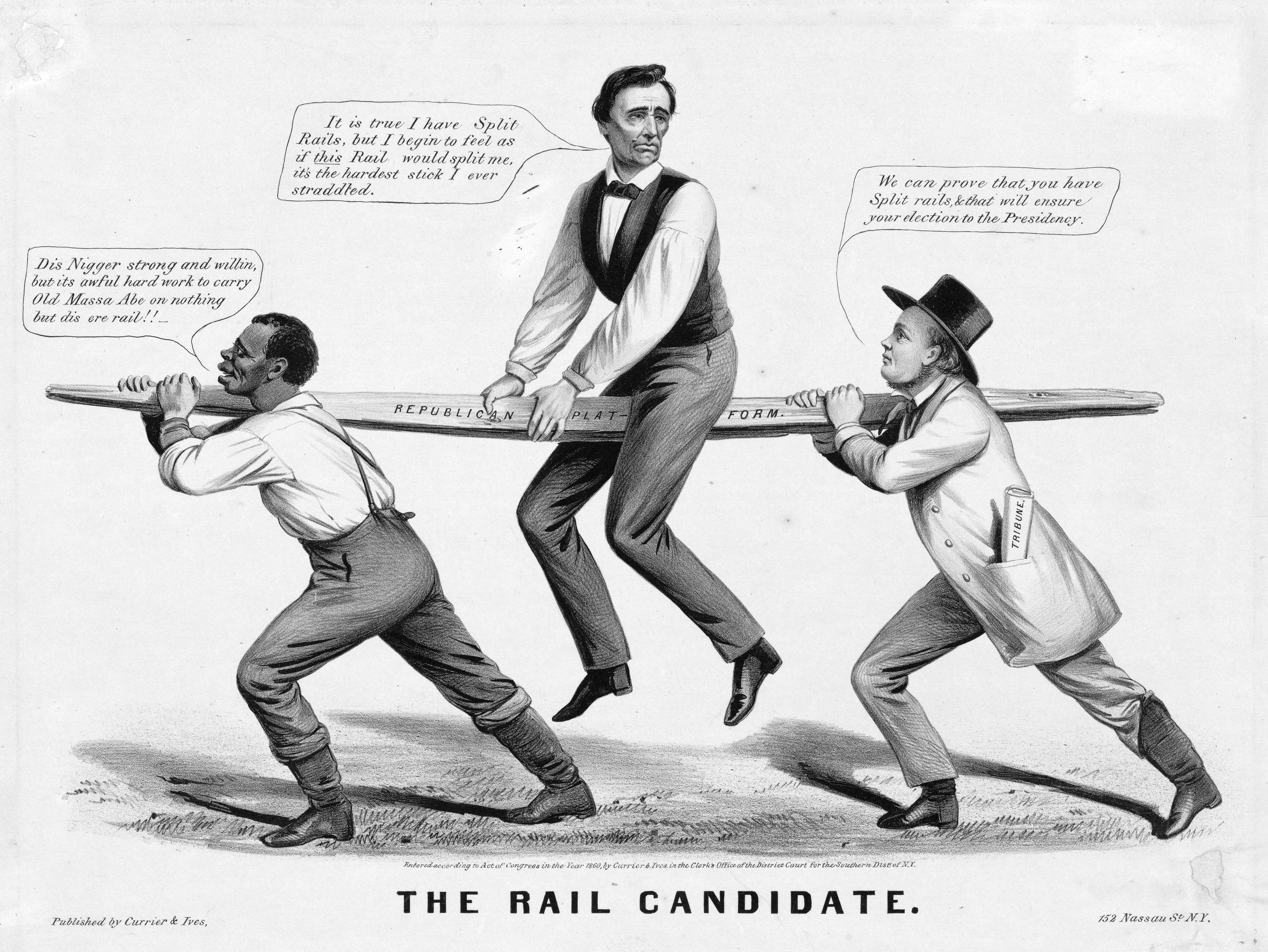 "The Rail Candidate", anti-Republican political caricature published by Currier and Ives in September 1860, showing Abraham Lincoln being carried on a fence-rail labeled "REPUBLICAN PLATFORM" by a black man and Horace Greeley (editor of the New York Tribune), alluding to Lincoln's nickname of the "rail-splitter". Horace Greeley "We can prove that you have split rails, & that will ensure your election to the Presidency" Abraham Lincoln "It is true I have split Rails, but I begin to feel as if this rail would split me, it's the hardest stick I ever straddled." Black man "Dis Nigger strong and willin, but it's awful hard work to carry Old Massa Abe on nothing but dis 'ere rail!!"